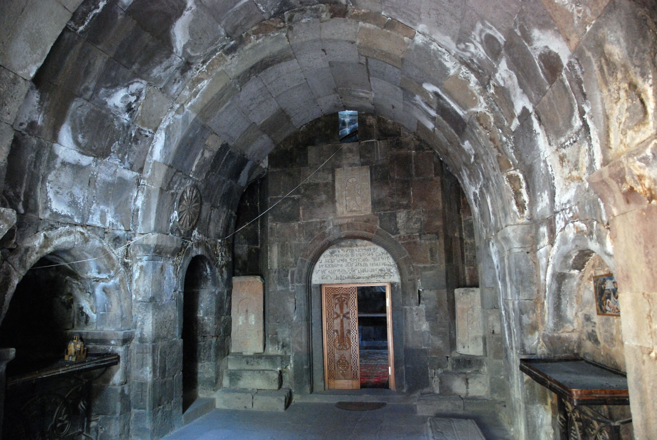 Gndevank, gavit